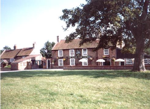 Alice Hawthorn, Nun Monkton, North Yorkshire, England. A beautiful traditional village pub and restaurant. The Alice closed in 2007, but reopened following major refurbishment in August 2009.